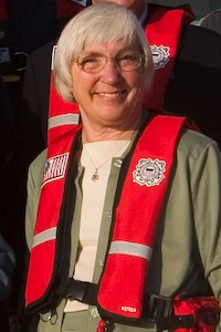 Public officials from in and around Santa Barbara, CA gather to support boating safety by donning Coast Guard Auxiliary life jackets in Santa Barbara Harbor.